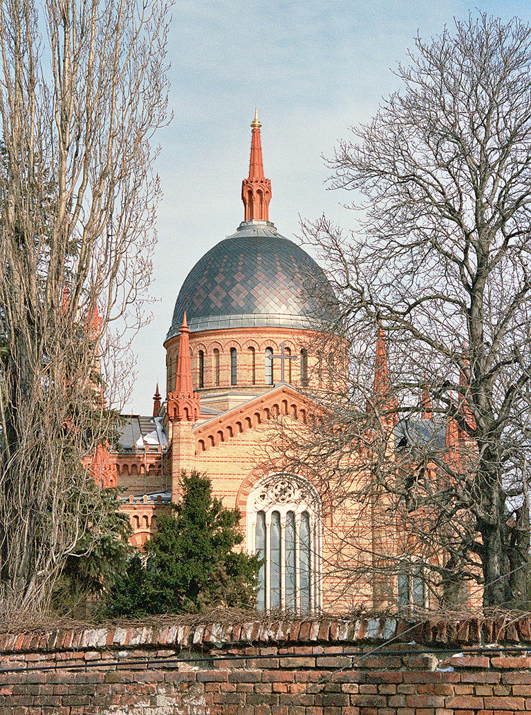 Christuskirche (Christ-church) at protestant (Augsburg Confession) cemetery Matzleinsdorf, Vienna; built 1858-1860 according to plans by Theophil von Hansen